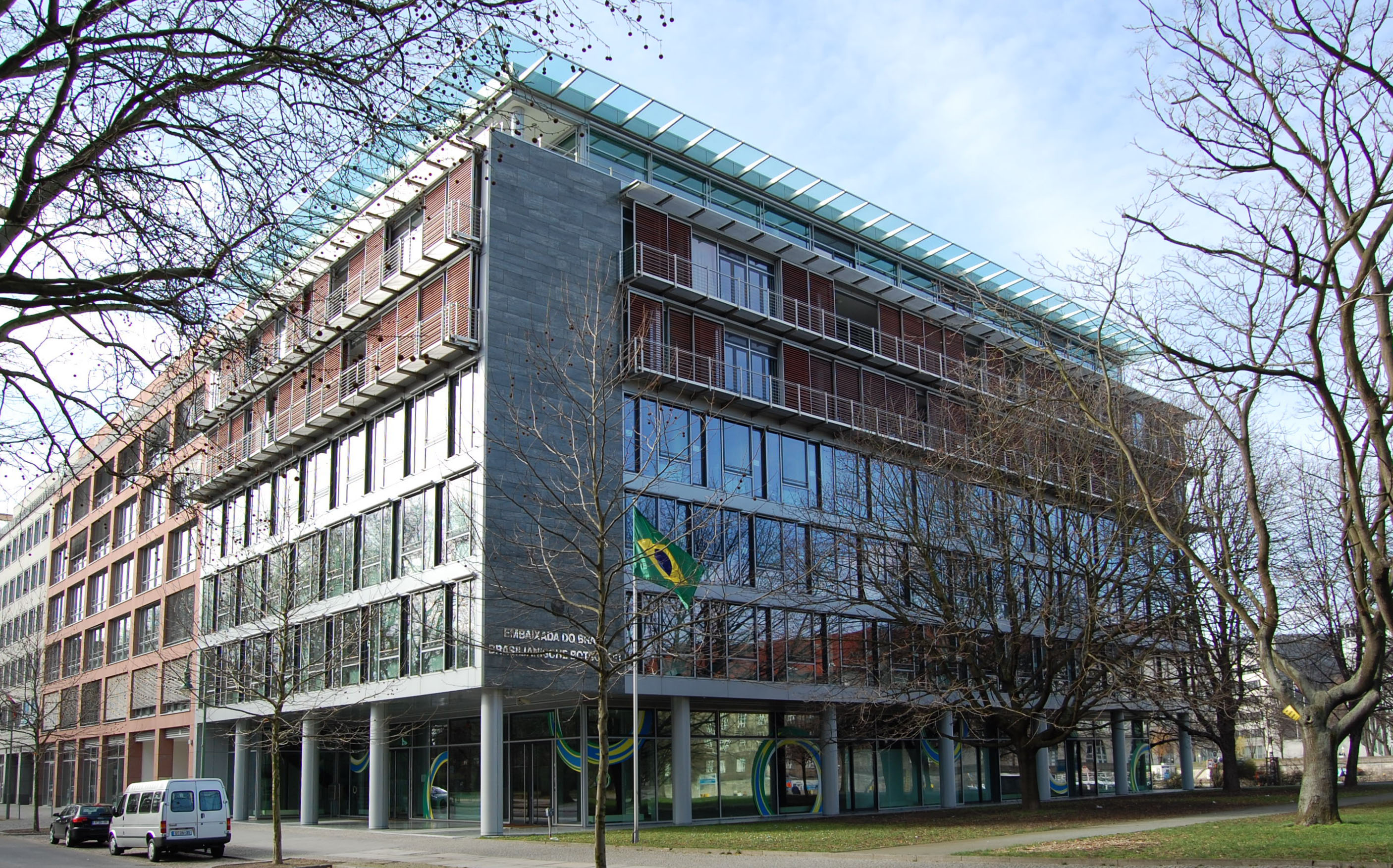 Brazilian Embassy in Berlin